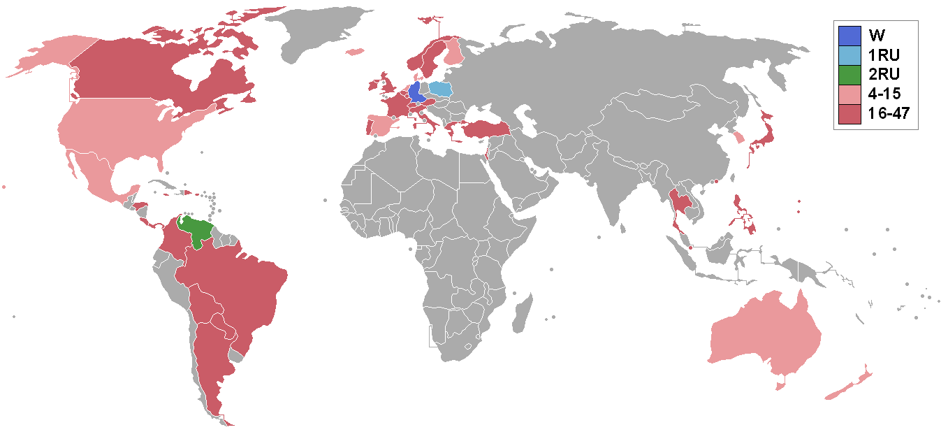 ms international 1989 results map